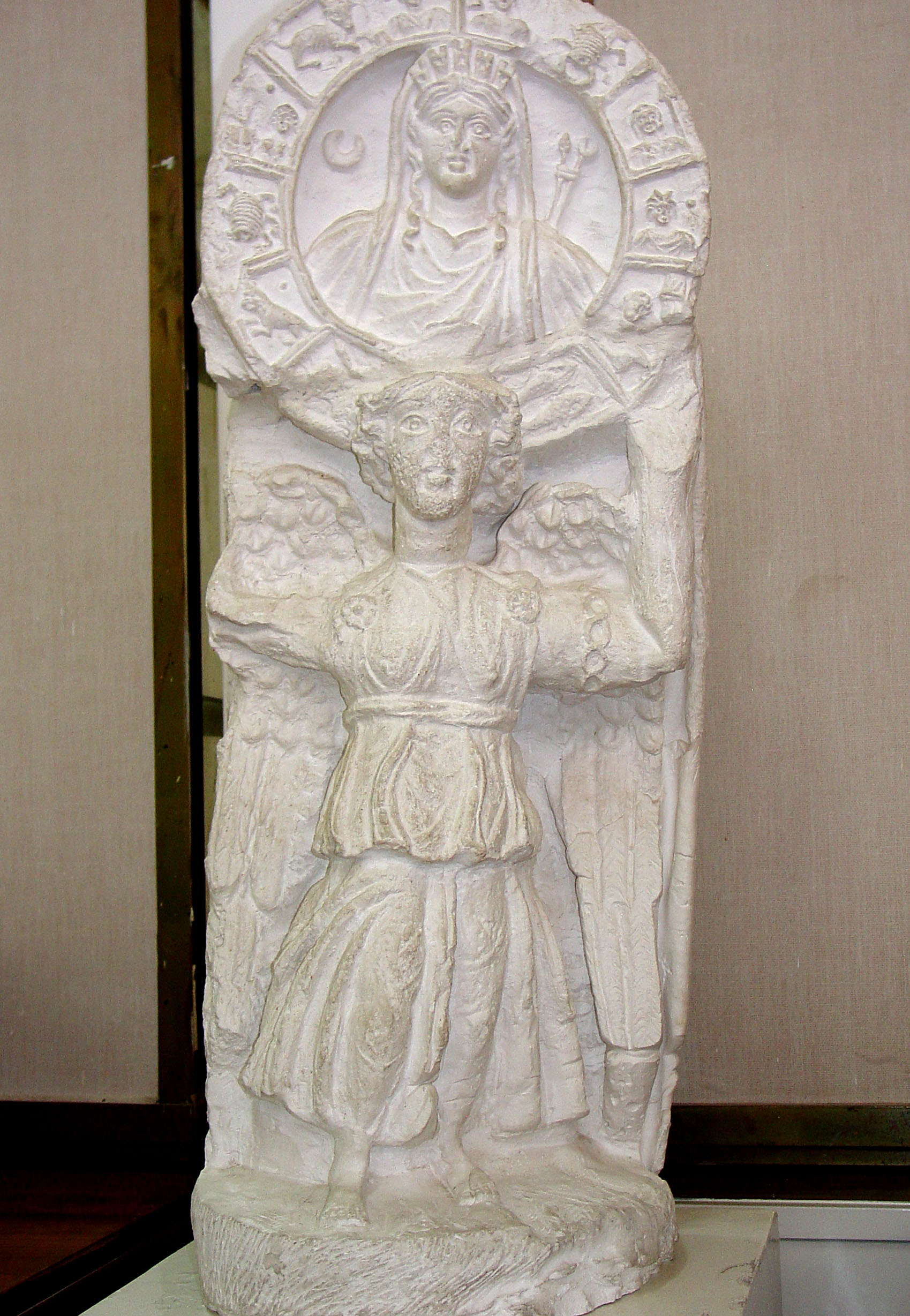 Nabatean, c. 100 AD This statue comes from Khirbet Tannur. A standing figure of winged Victory (Nike) holds up a bust of Atargatis, crowned as Tyche ("Fortune") and encircled by the signs of the zodiac. The statue is divided into two pieces: the standing Nike, kept in the Amman Museum, and the bust of Tyche with zodiac, belonging to the Cincinnati Art Museum. The two pieces were reunited for a traveling exhibit, Petra: Lost City of Stone. The sculpture seen here is a copy, that is being kept in the Amman museum while the reunited statue travels (2005).